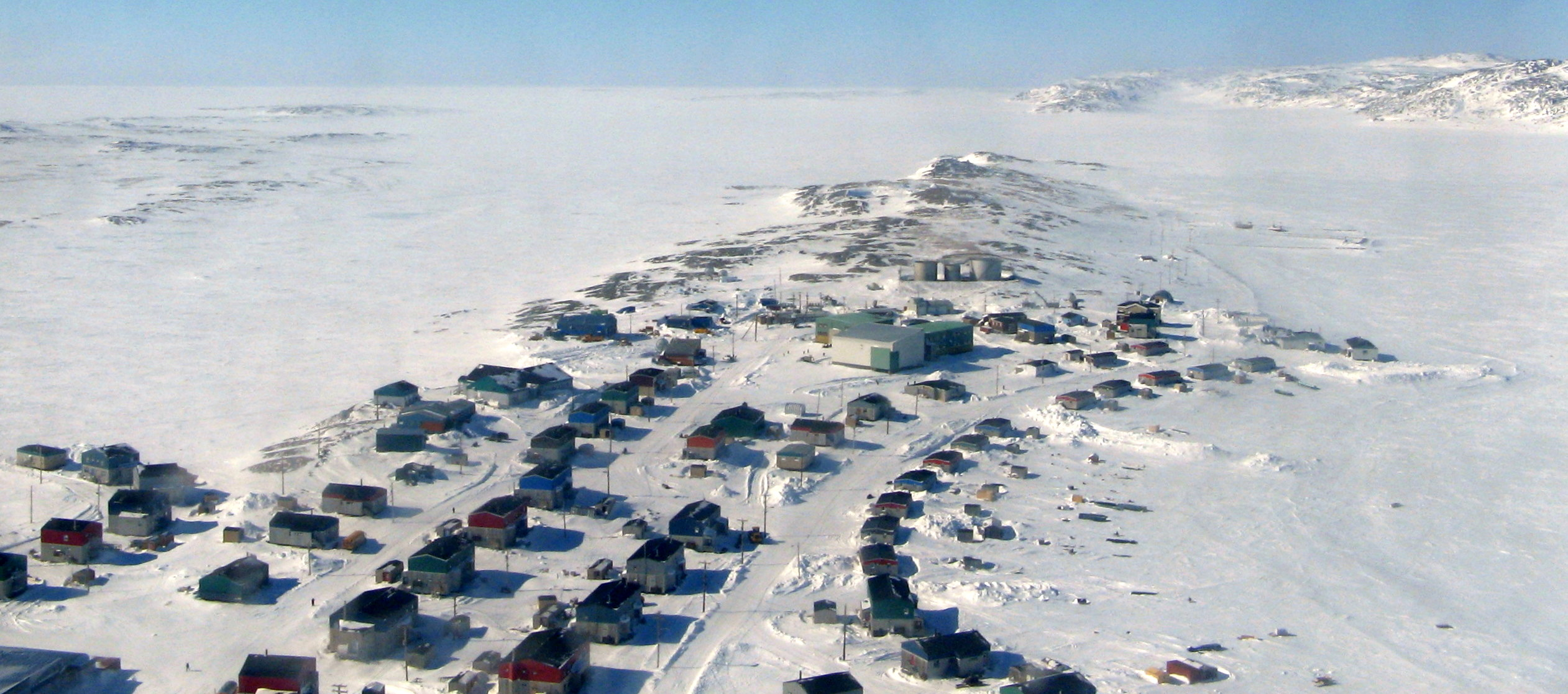 Aerial view of the Northern Community of Akulivik in Nunavik (North of Quebec)